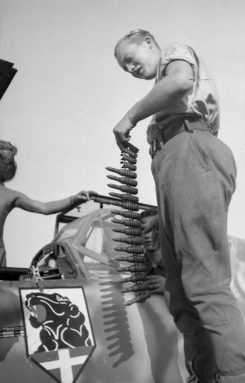 Leningrad, Soviet Union - A mechanic rearming of a Messerschmitt Bf 109 fighter aircraft of the group (II. / JG 54) from Jagdgeschwader of 54 "green heart", PK KBK Lw 4